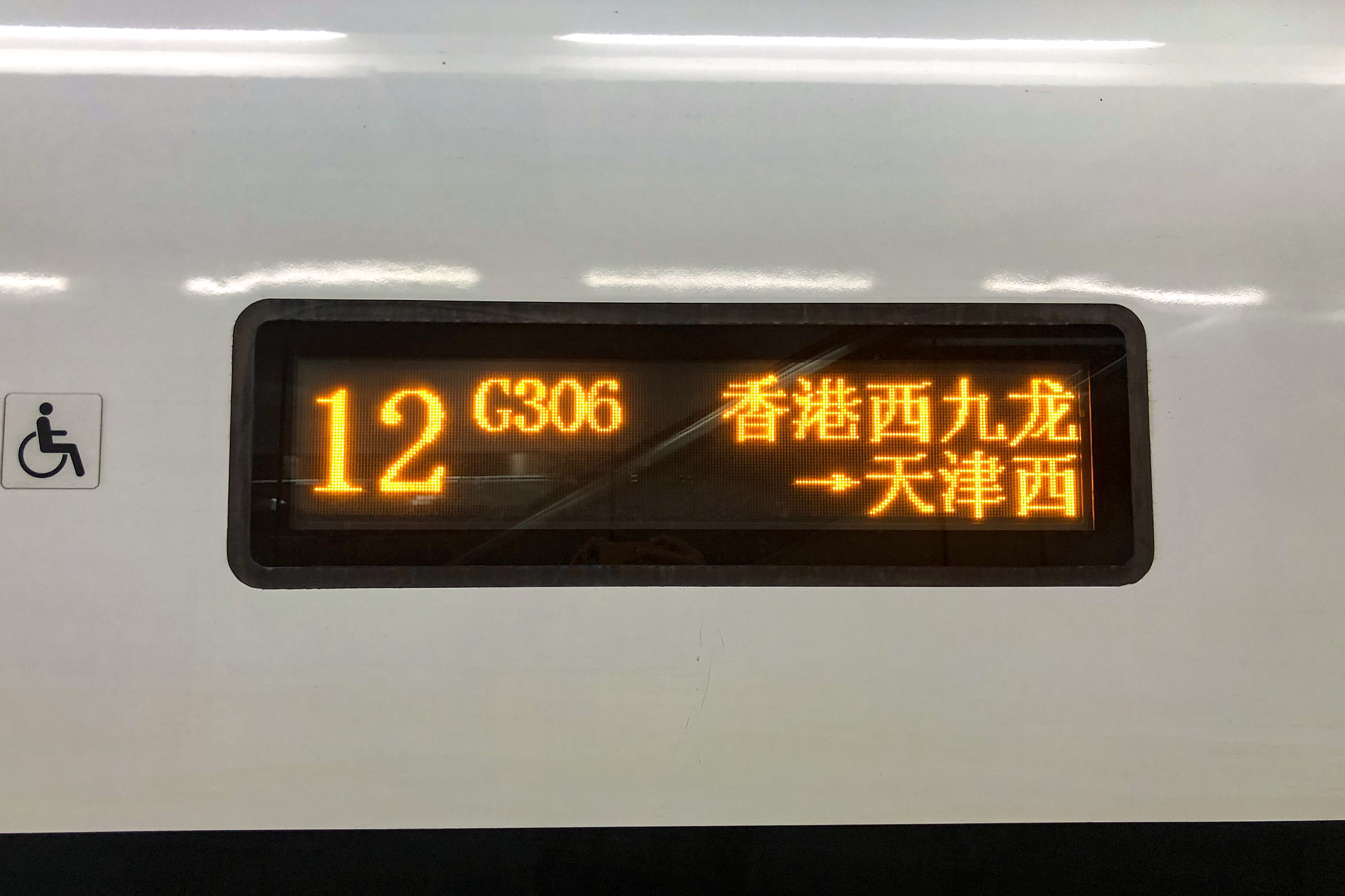 This train links the Greater Bay Area and Beijing-Tianjin-Hebei multiplex.